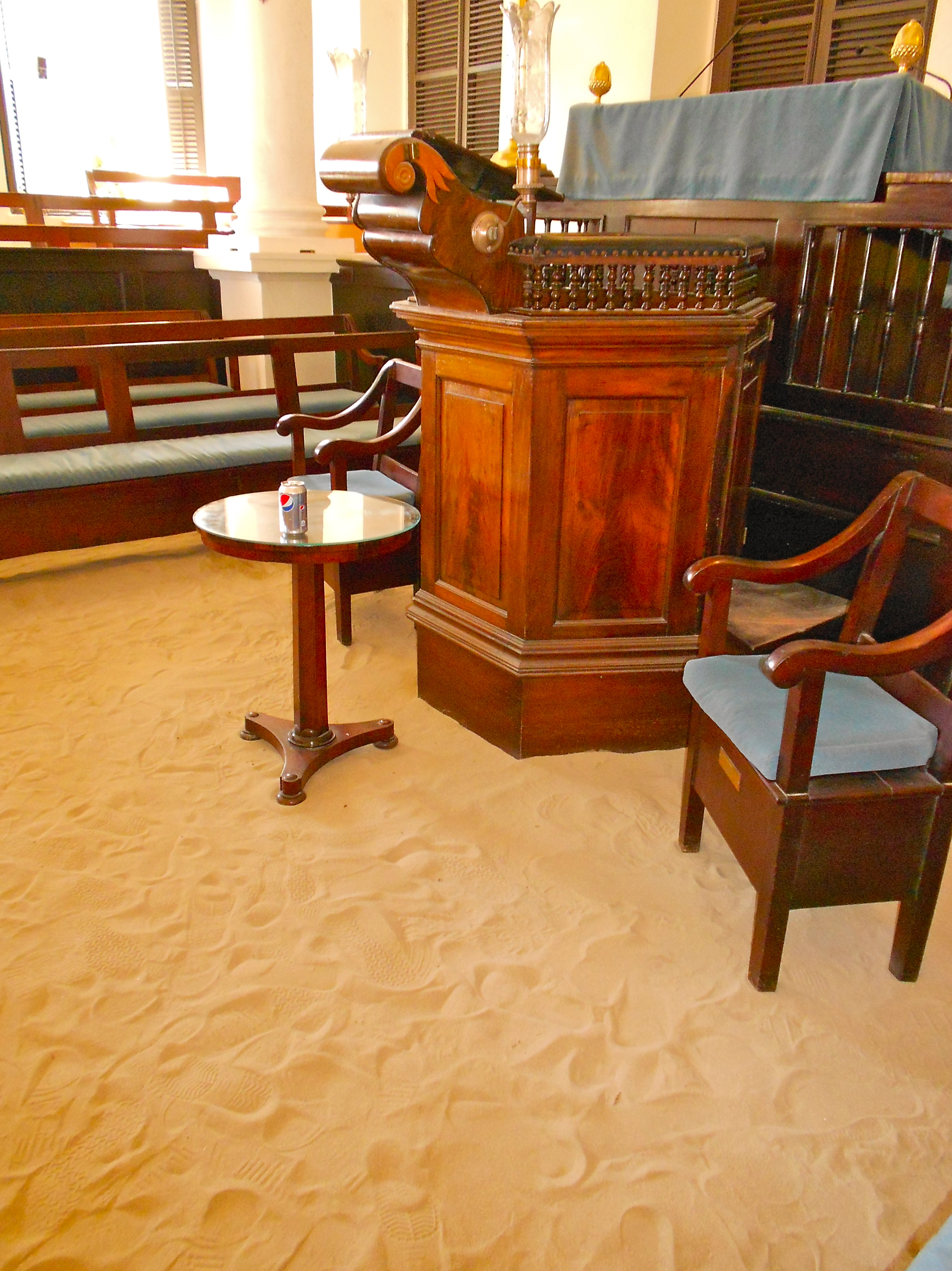 Sand floor at St. Thomas Synagogue-Beracha Veshalom Vegemiluth Hasadim on the NRHP since August 15, 1997. At 16AB Krystal Gade, Charlotte Amalie, St. Thomas, US Virgin Islands.